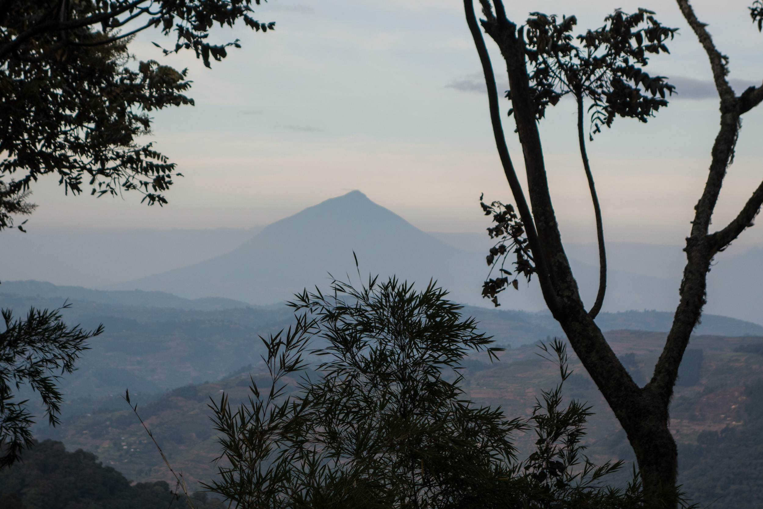 Looking from Bwindi to Muhavura Volcano in Rwanda